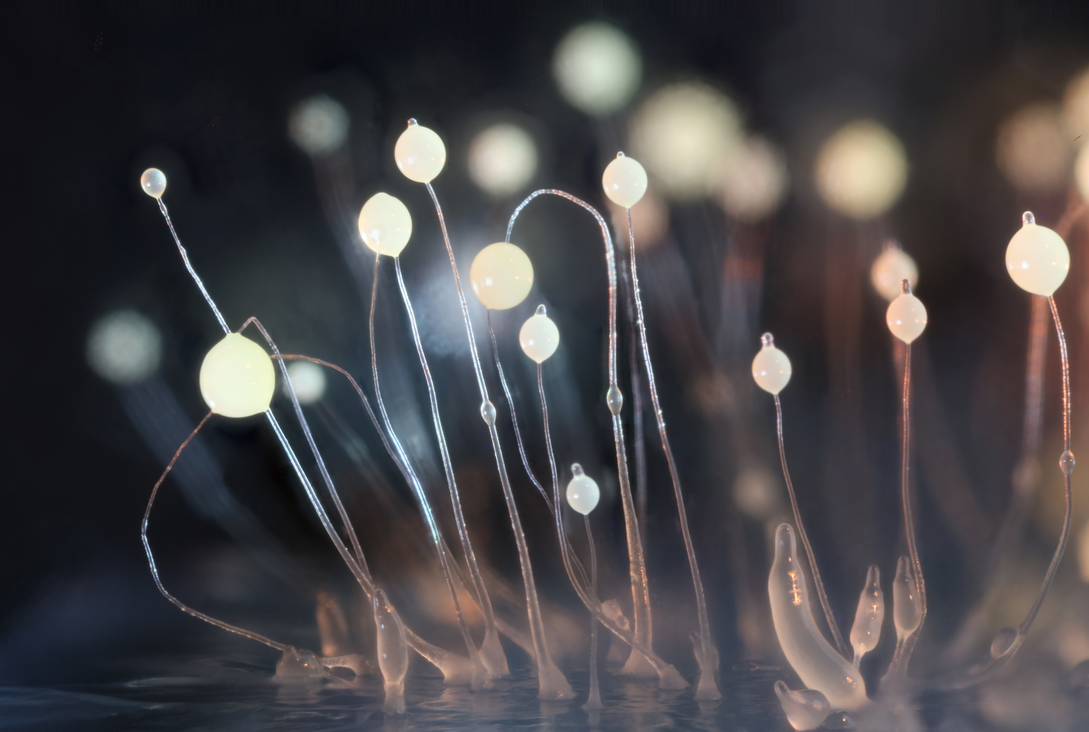 Macro photo of Dictyostelium discoideum fruiting bodies on black agar.